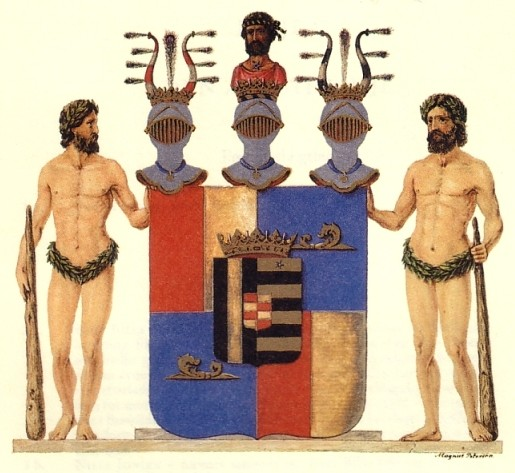 Coat of arms of the comital Bille-Brahe-Selby family